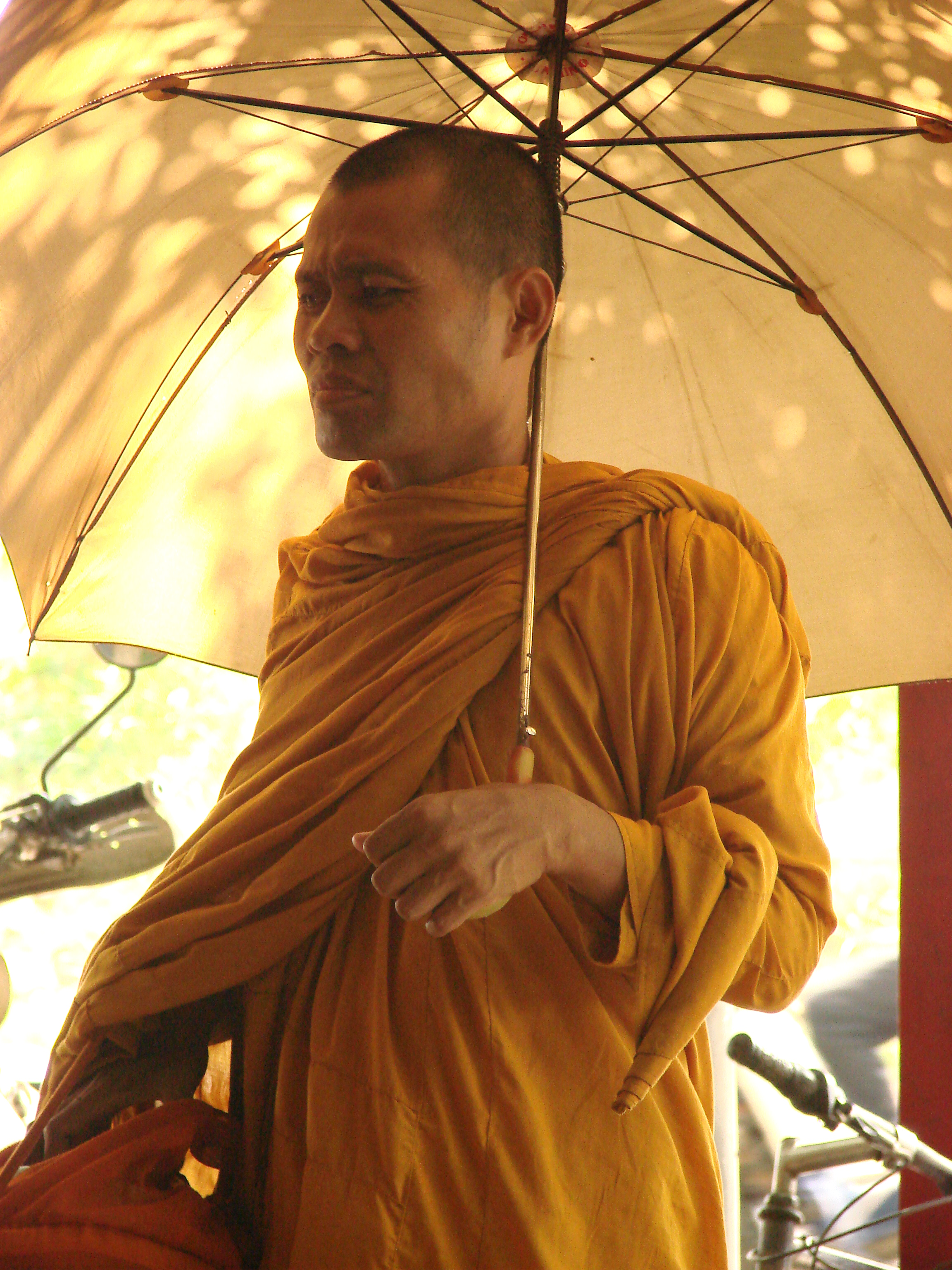 Buddhist monk making his morning rounds in Phnom Penh, Cambodia. May 2009.